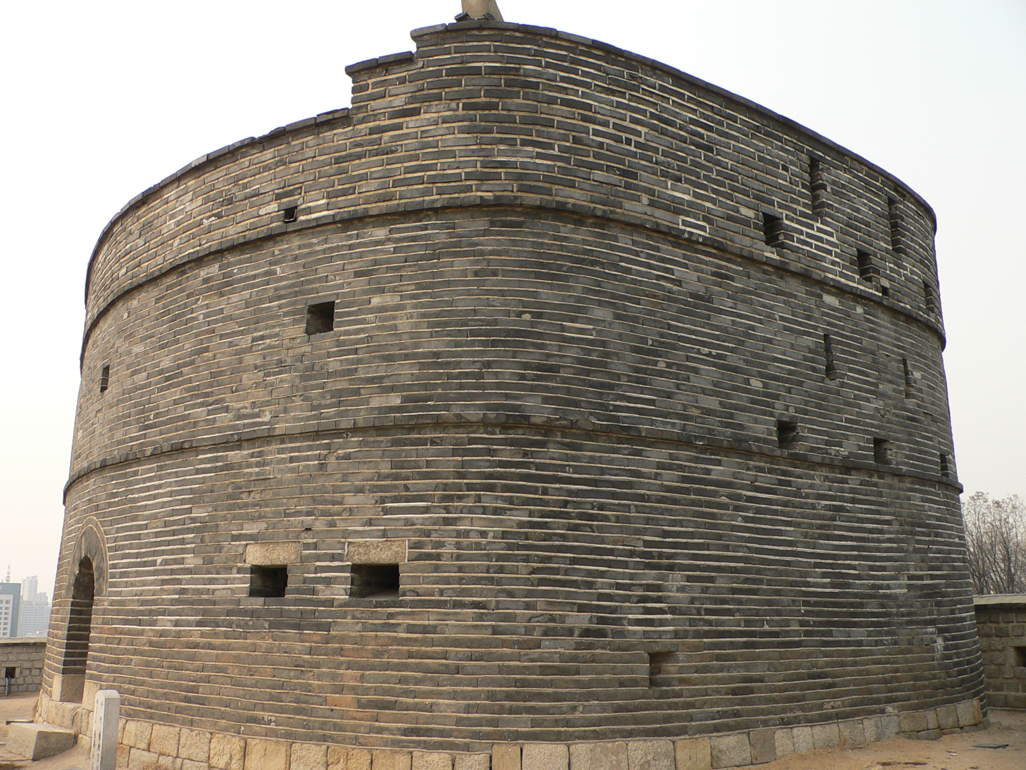 An arrow firing station.